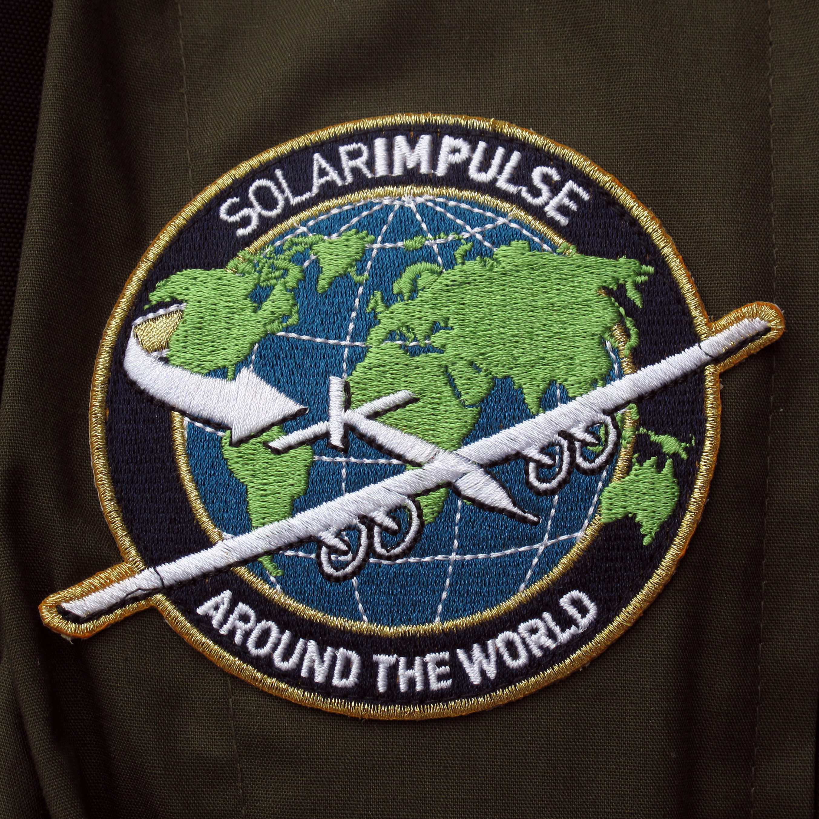 Uniform badge of Solar Impulse